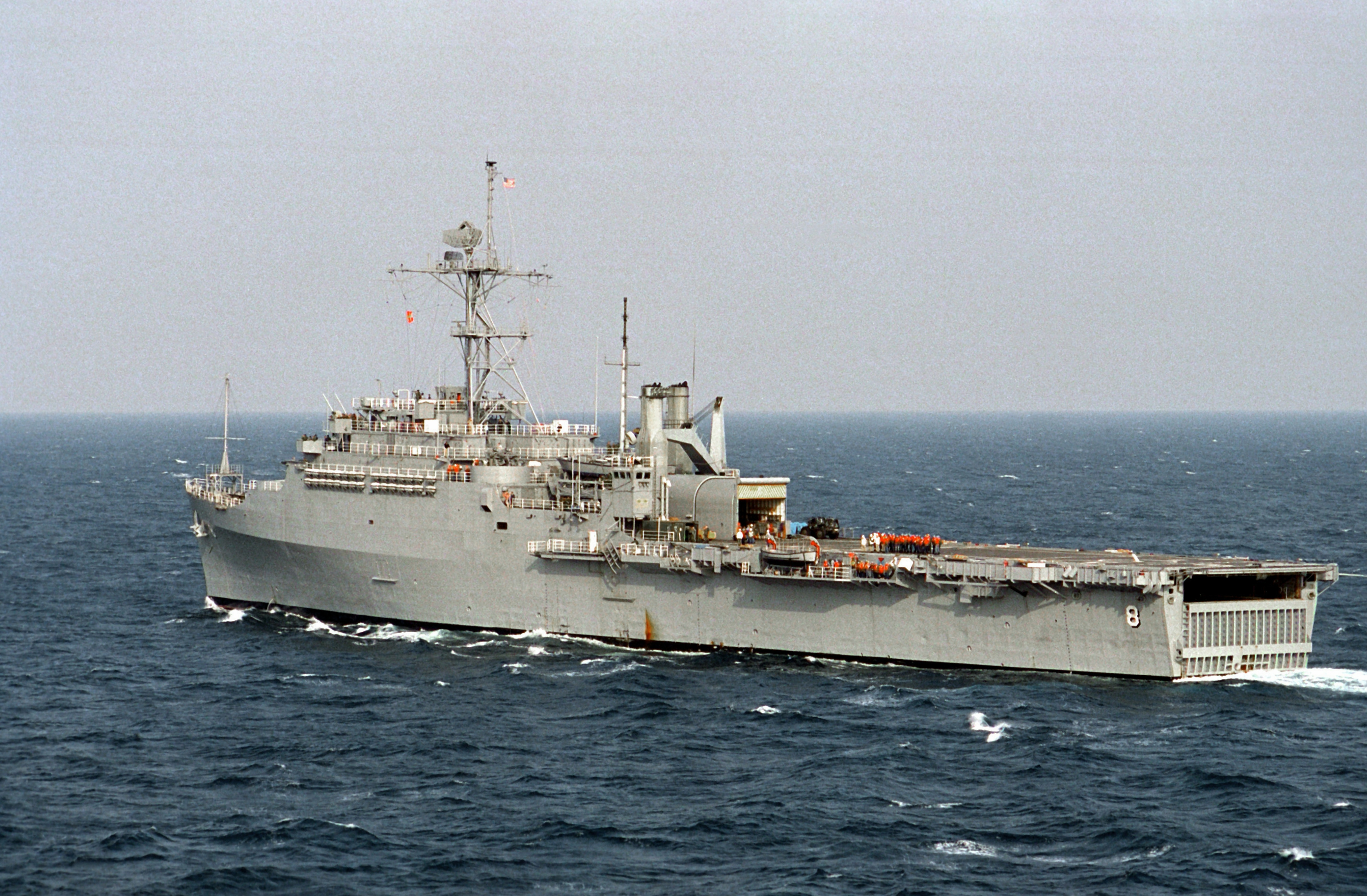 The U.S. Navy amphibious transport dock ship USS Dubuque (LPD-8) underway prior to the start of an underway replenishment during exercise "Valiant Blitz '91", 1 November 1991.